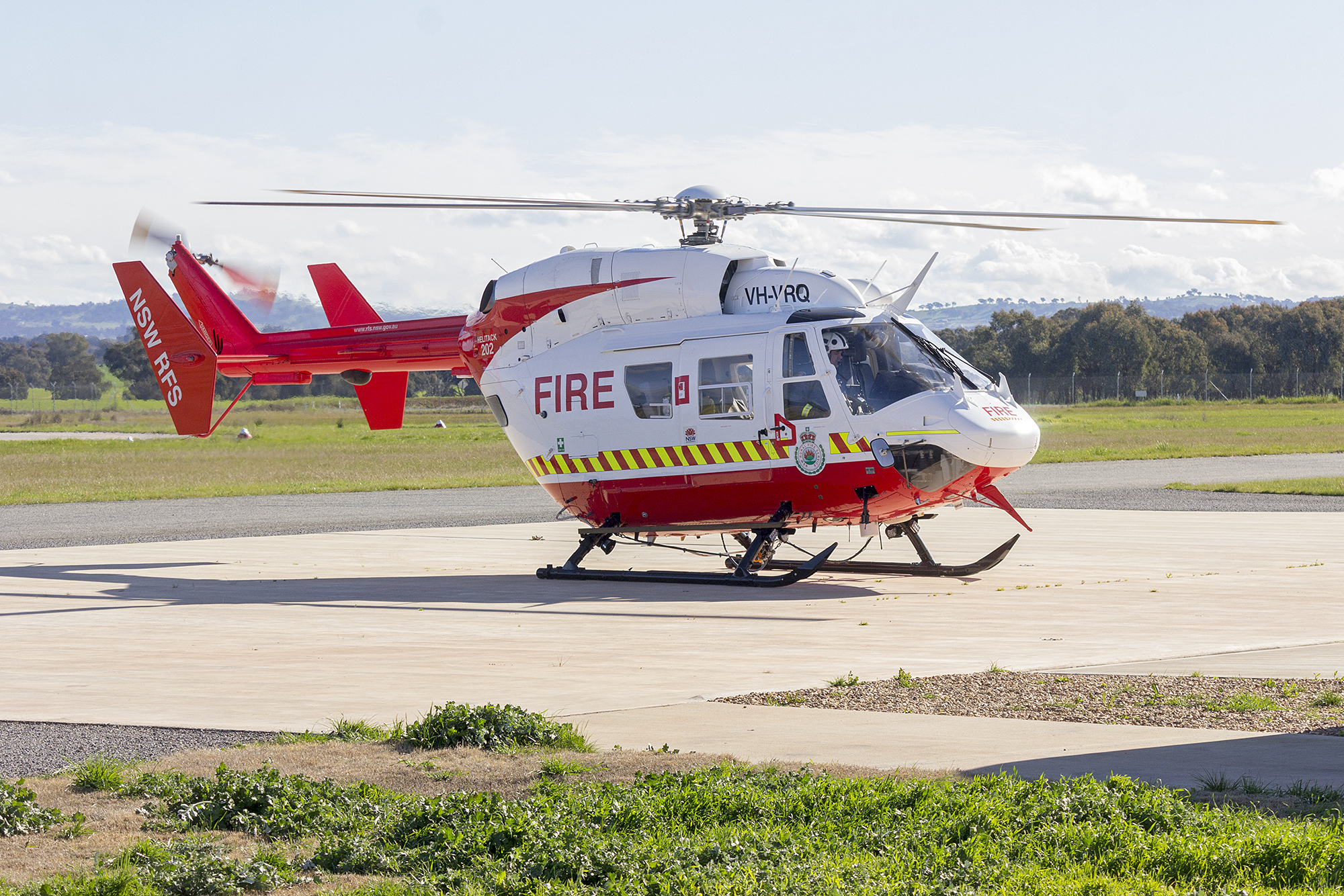 New South Wales Rural Fire Service (VH-VRQ) Kawasaki Heavy Industries BK117 B-2 at Wagga Wagga Airport.